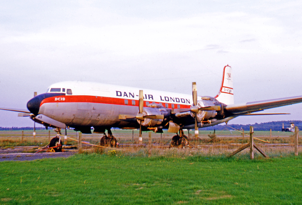 Douglas DC-7BF G-ATAB of Dan-Air London at Lasham airfield, Hants, in 1969